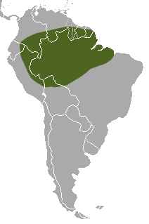 Amazon Weasel (Mustela africana) range